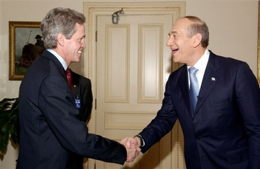 Coleman meets with Israeli Prime Minister Olmert before address to Congress